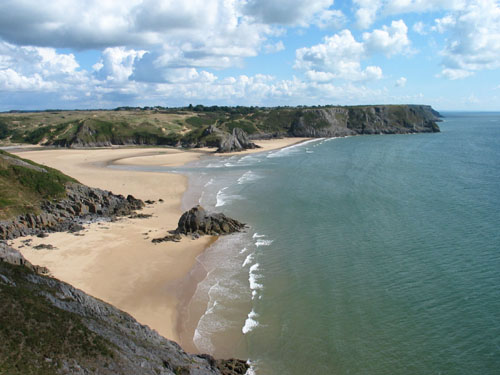 Three Cliffs Bay on the Gower peninsular of South Wales. Photograph taken by Jamie O'Shaughnessy September 5, 2003, released to the public domain.